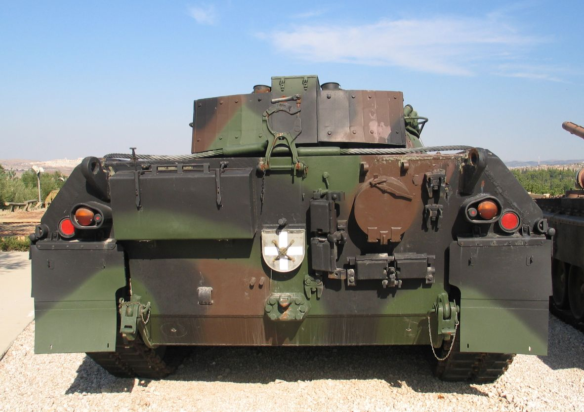 Description: Leopard 1 MBT in Yad la-Shiryon Museum, Israel. Source: Photo by me, User:Bukvoed.